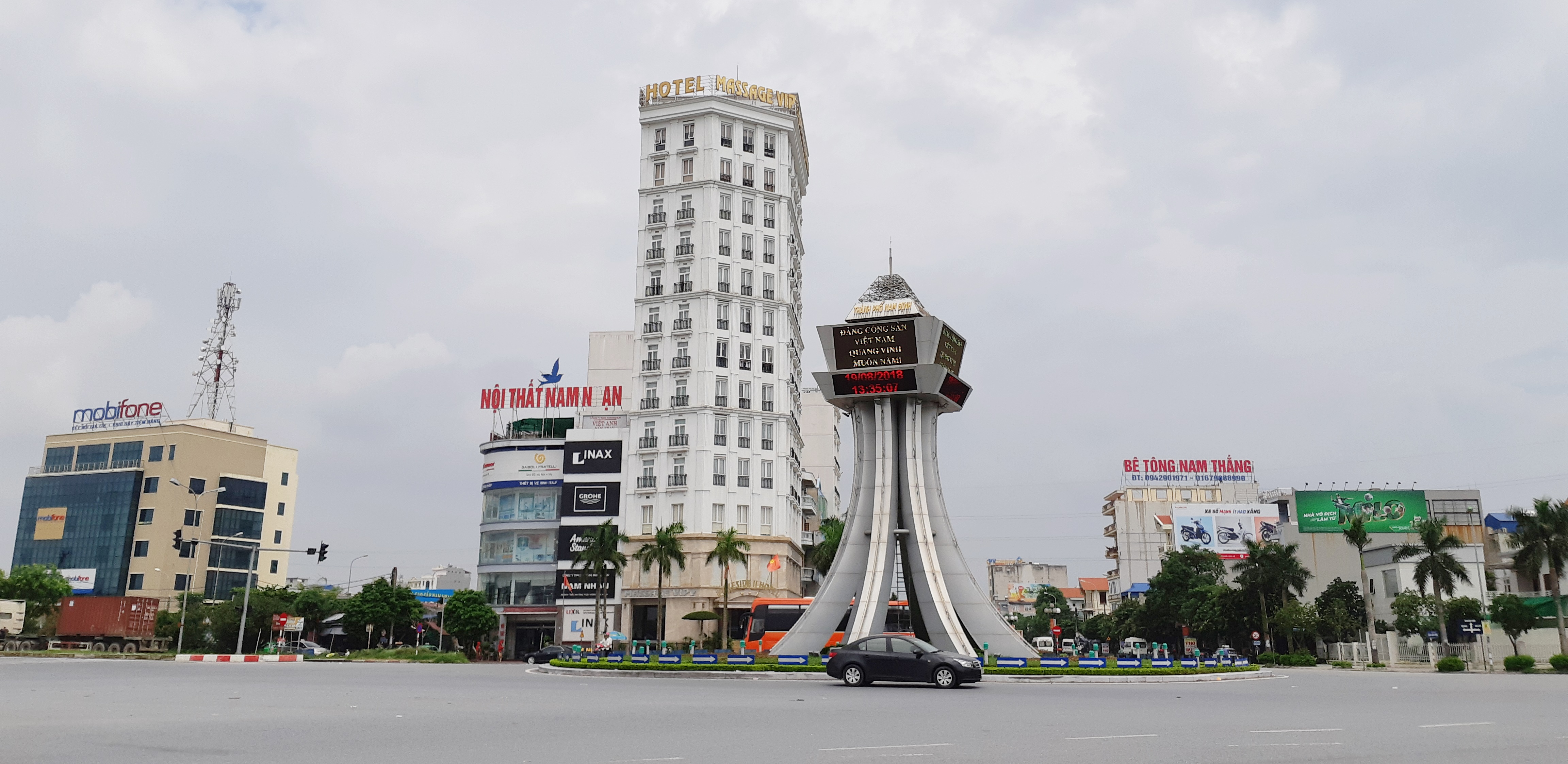 City gate in Nam Dinh City, Nam Dinh Province, Vietnam.